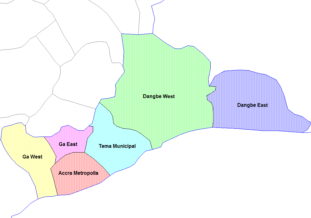 Map of the districts of the Greater Accra region of Ghana. Created by Rarelibra for public domain use. Created using MapInfo Professional v7.5 and various mapping resources.